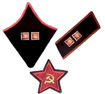 Rank insignia of the Workers' and Peasants' Red Army (WPRA), here "Junior polit-leader" (equivalent: “2nd Lieutenant”, comparable to NATO OF-1b) Army/ armoured treoops from 1935 to 1942 – collar patch big: overcoat, collar patch small: jacket, sleeve insignia.